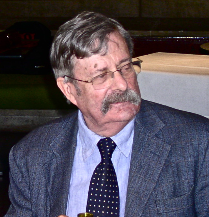 Benedict Nightingale at the Critics' Circle luncheon for Alan Ayckbourn in the Terrace Cafe, National Theatre 22nd April 2010